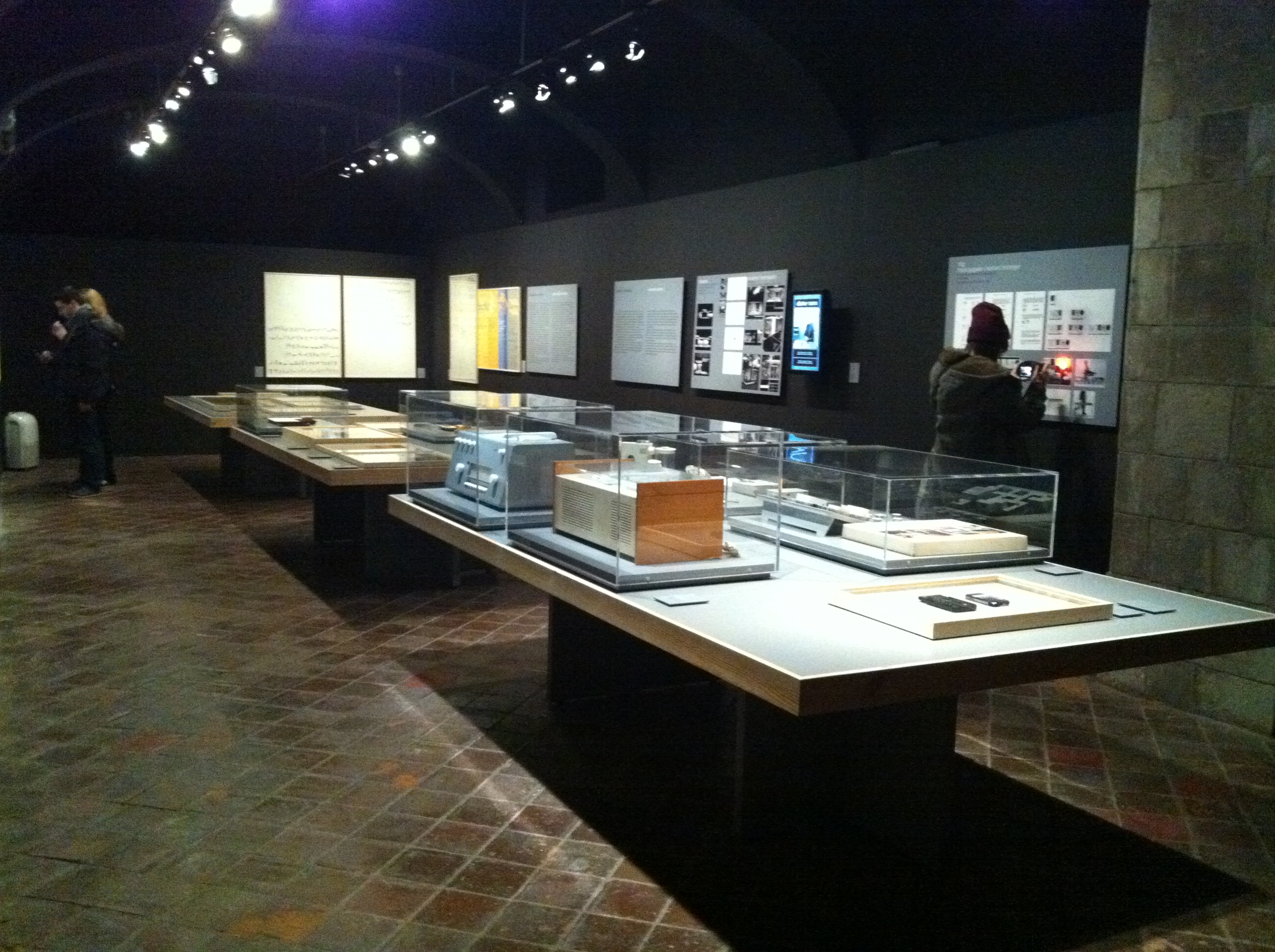 Systems design- The Ulm school. Exhibit at Disseny Hub Barcelona- DHUB